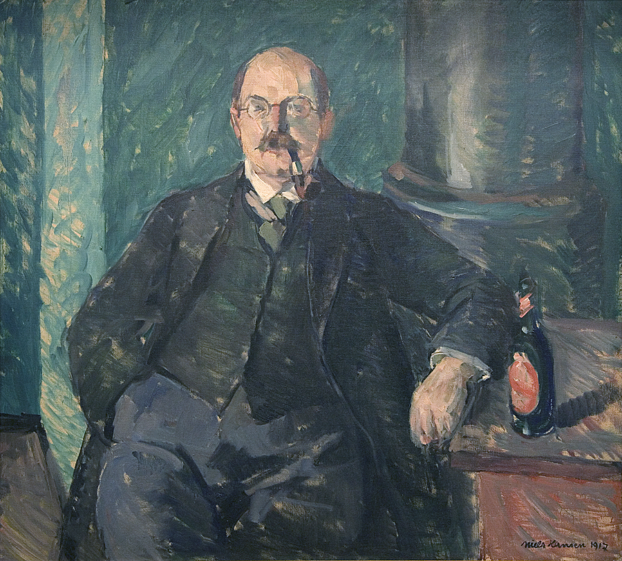 Niels Fischer malet af Niels Hansen i 1917, inventarnummer KMS3428, SMK